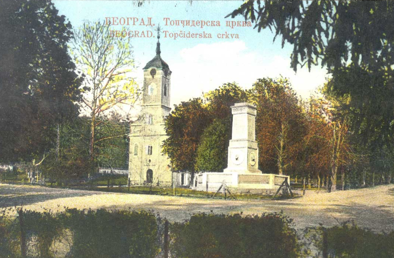 Church in Topčider, Belgrade - 1920s